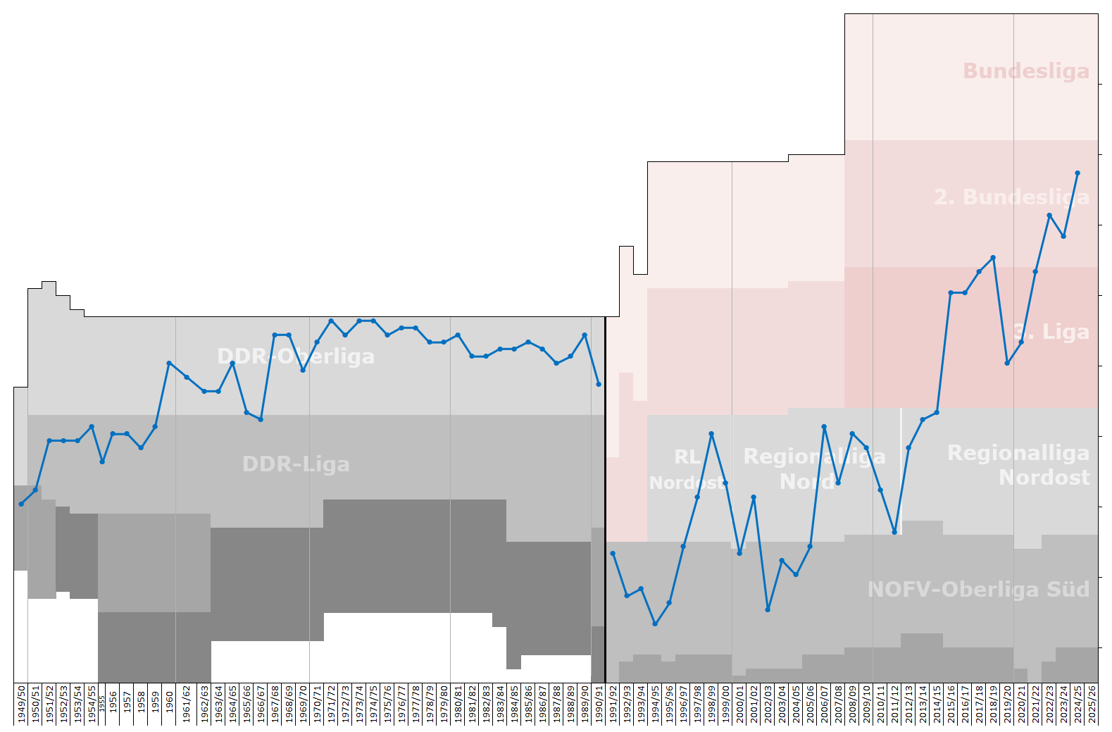 Chart of end-season table positions of 1. FC Magdeburg in the football league system of Germany and GDR. Data source: RSSSF, wikipedia, f-archiv.de, fussball.de